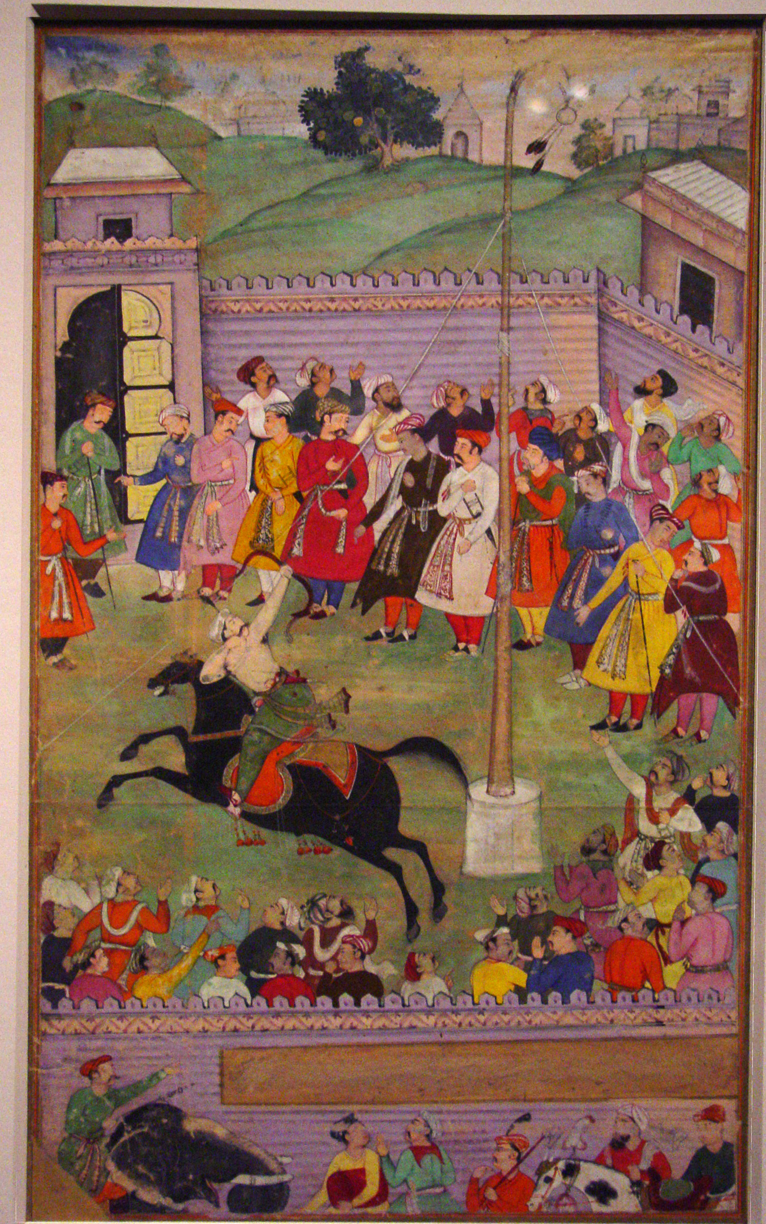 Archery Competition. India, Mughal Period, ca. 1600. Opaque watercolor and gold painting, on paper.